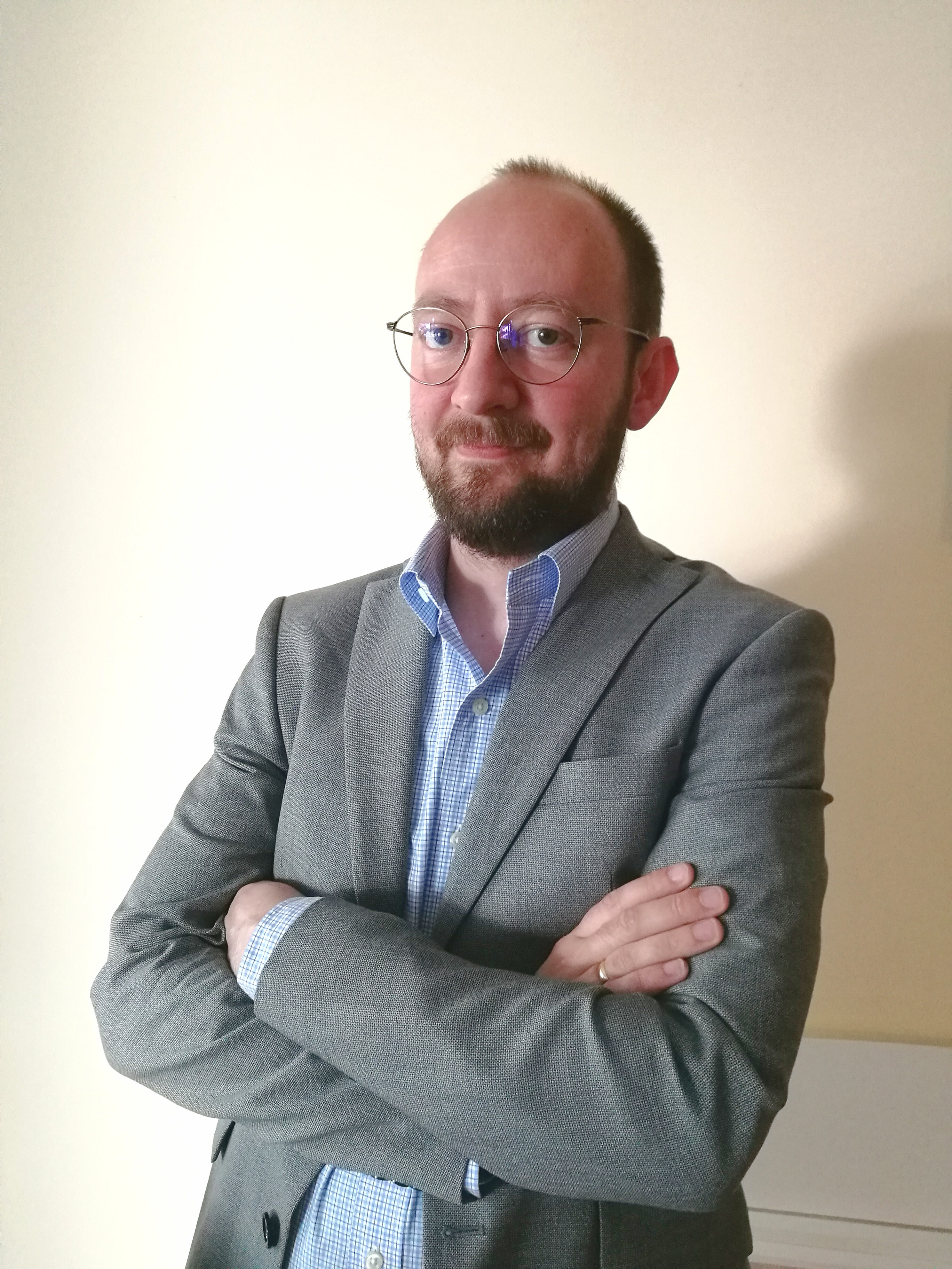 Portrait of Georgi Gochev by his wife, Alexandra. May 2017. Sofia, Bulgaria.